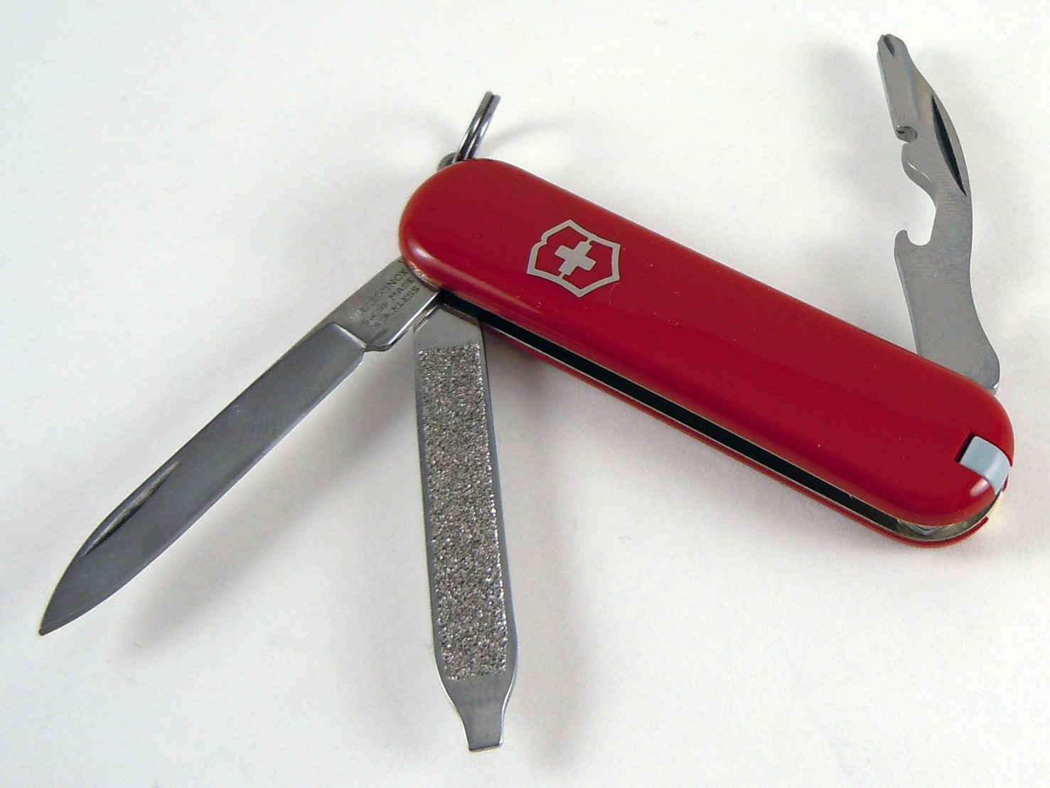 Victorinox Swiss Army Knife Rally, replaced under warranty.